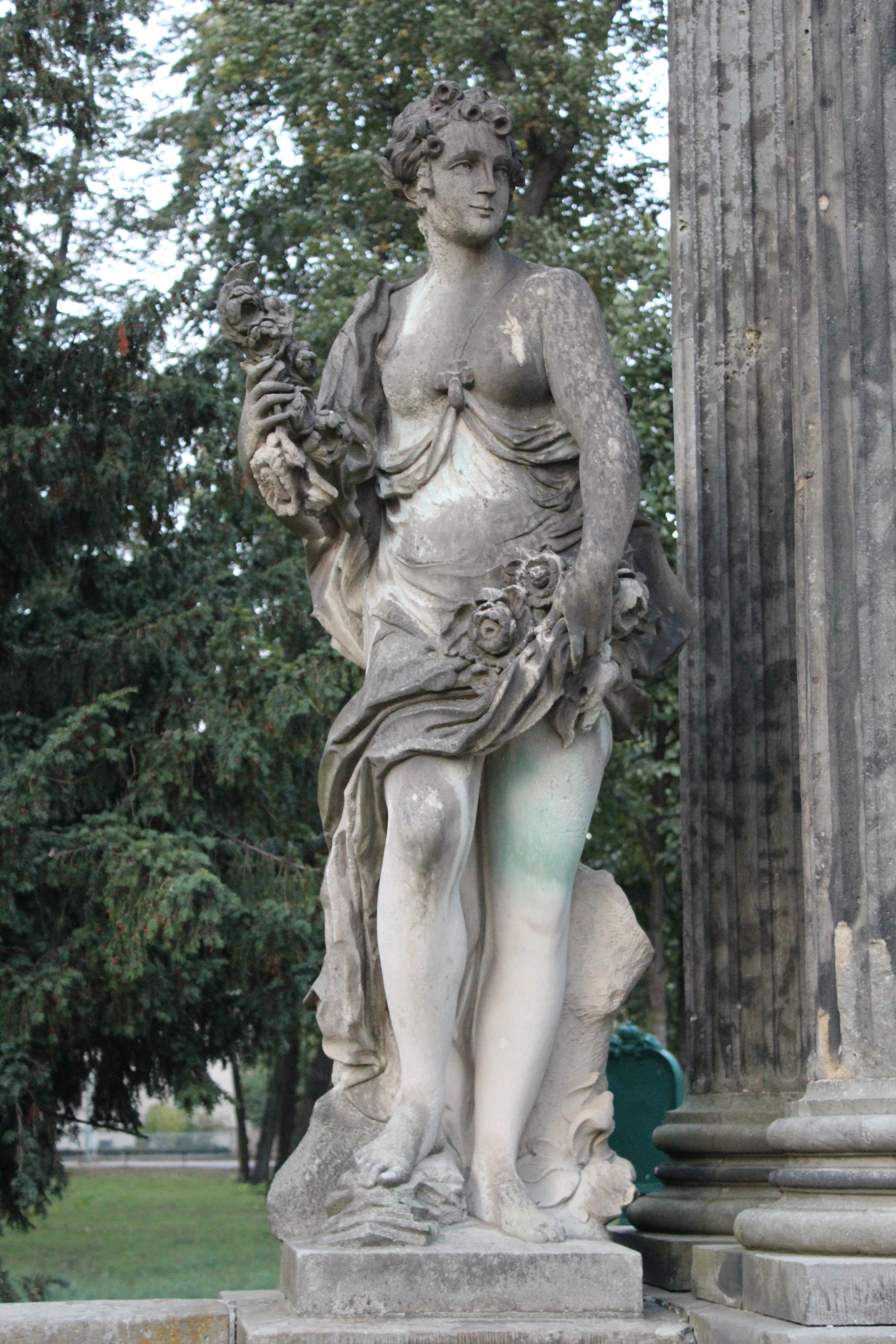 Obeliskportal, left side